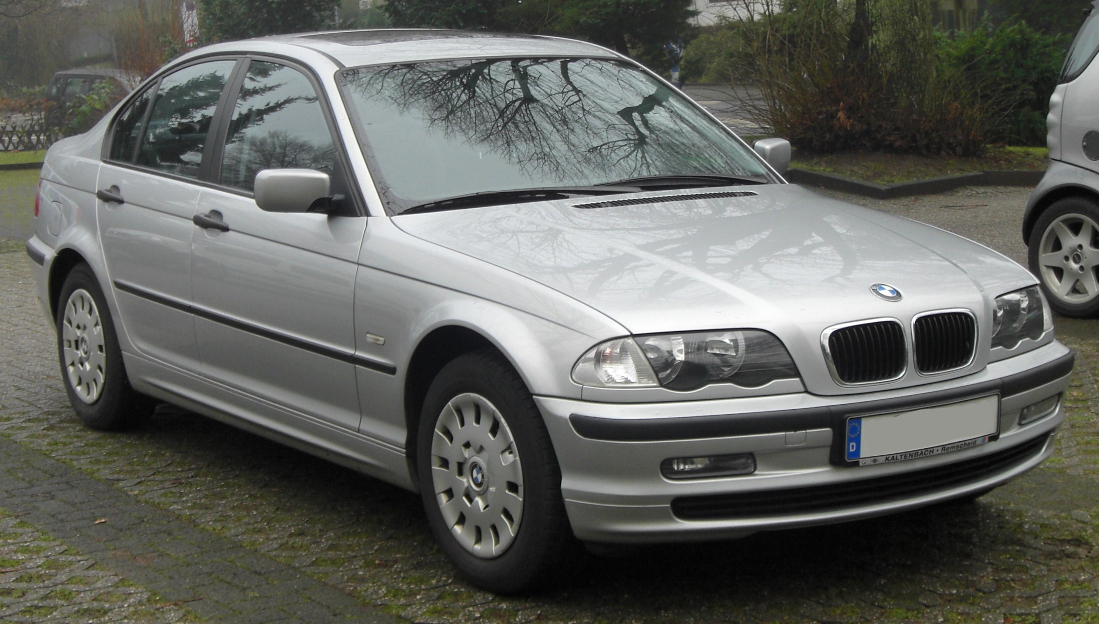 Description: BMW E46 Source: Matthias Other Version(s)